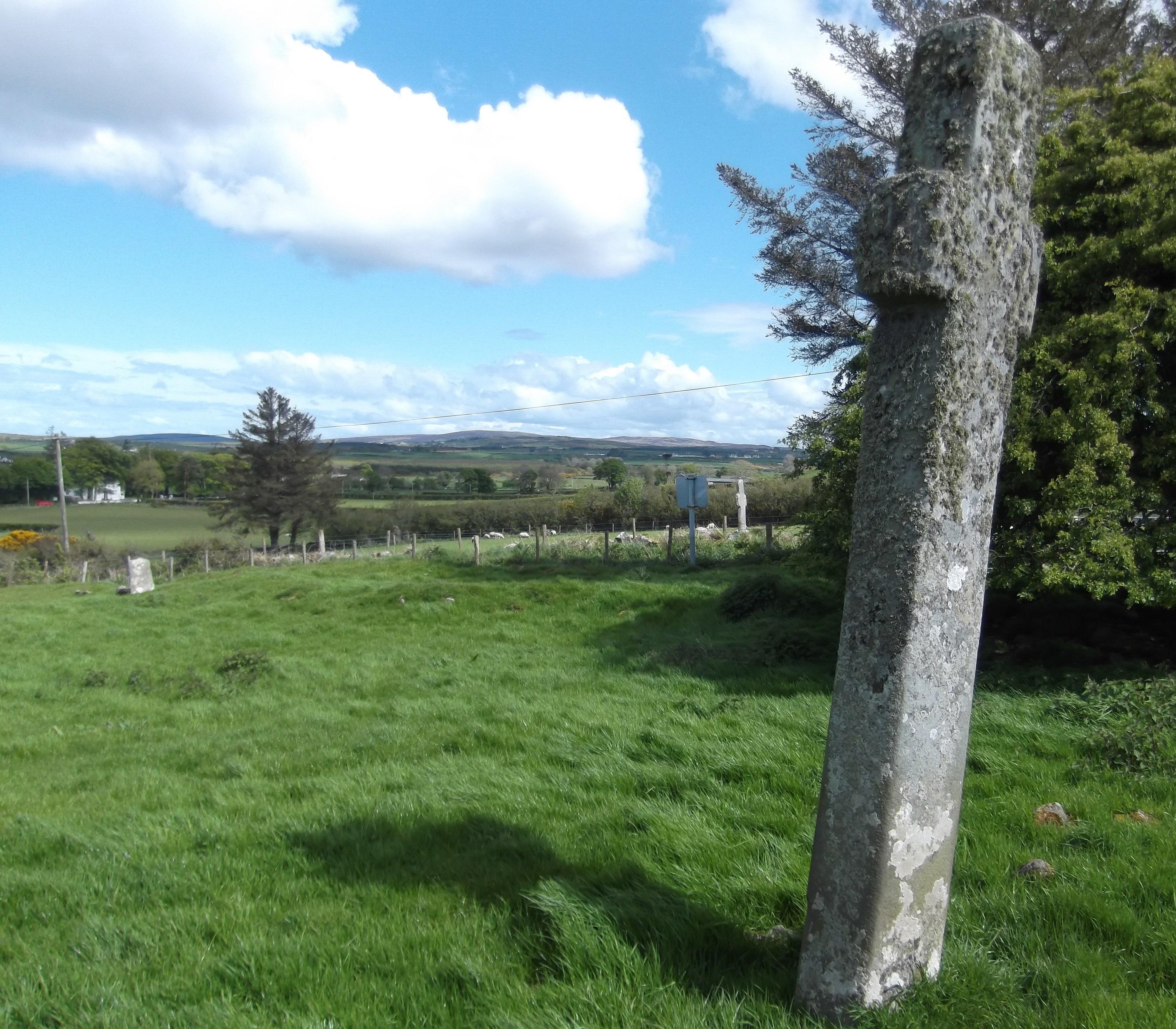 Photograph of crosses at Carrowmore, Co. Donegal, Ireland. View from the west cross towards the east cross in adjacent field across the road.